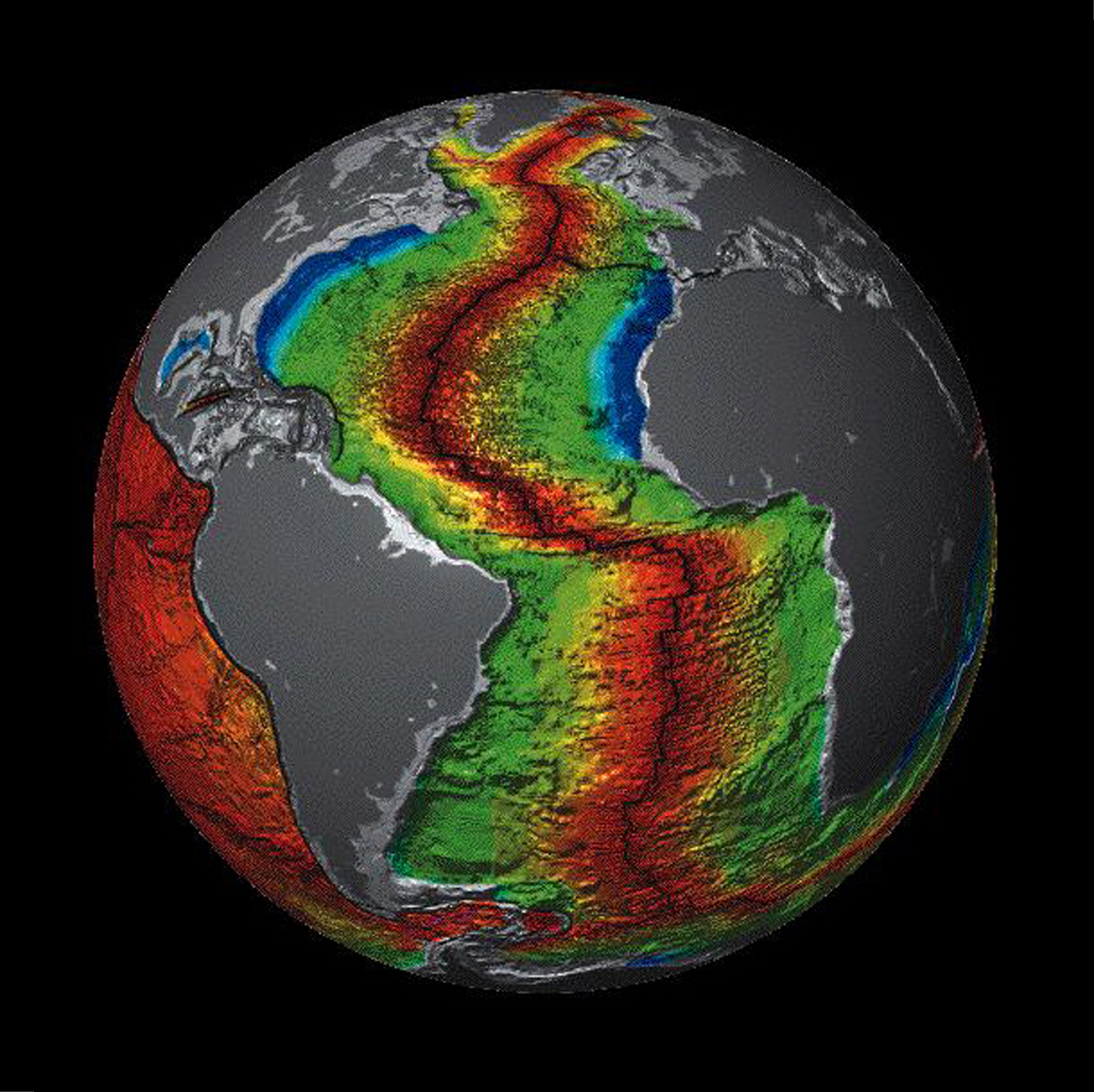 Age of oceanic crust. (See also Image:Earth seafloor crust age 1996.gif) Source: Excerpted from ; original upload in english wikipedia 31 March 2005 by User:SEWilco